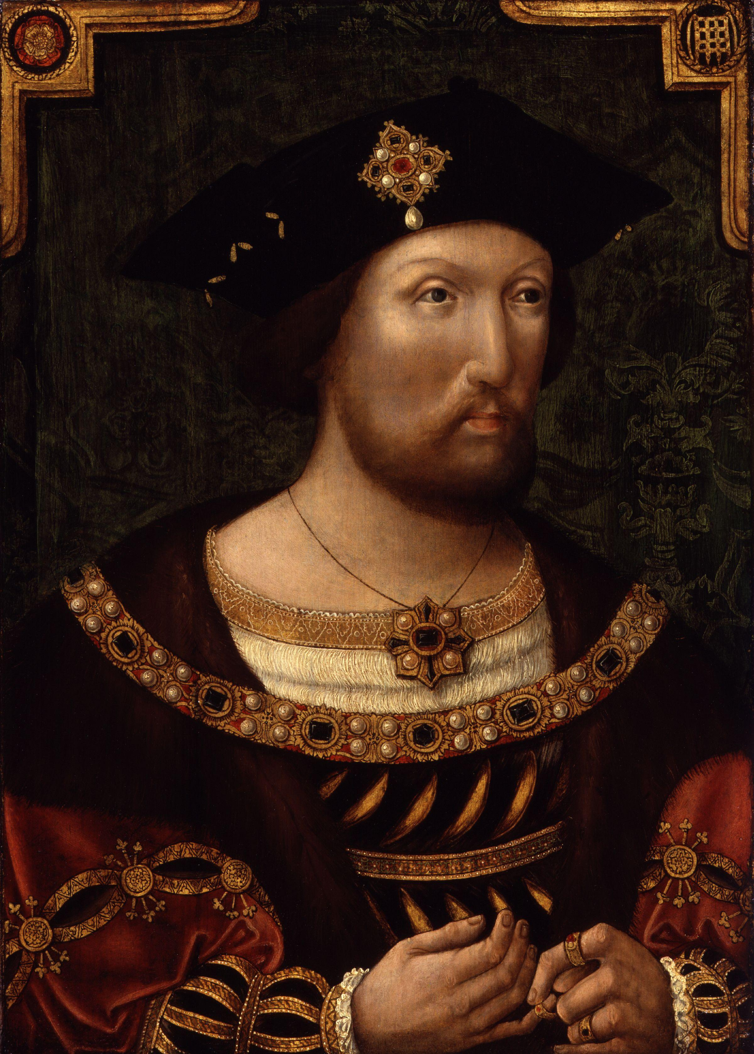 King Henry VIII, by unknown artist. All images in this batch have an unknown author, but there is strong evidence it was first published before 1923 (based mainly on the NPG's estimated date of the work).